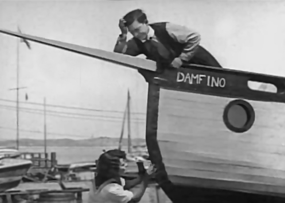 The Boat is a 1921 American short comedy film written by, directed and starring Buster Keaton. This scene depicts the (attempted) christening.